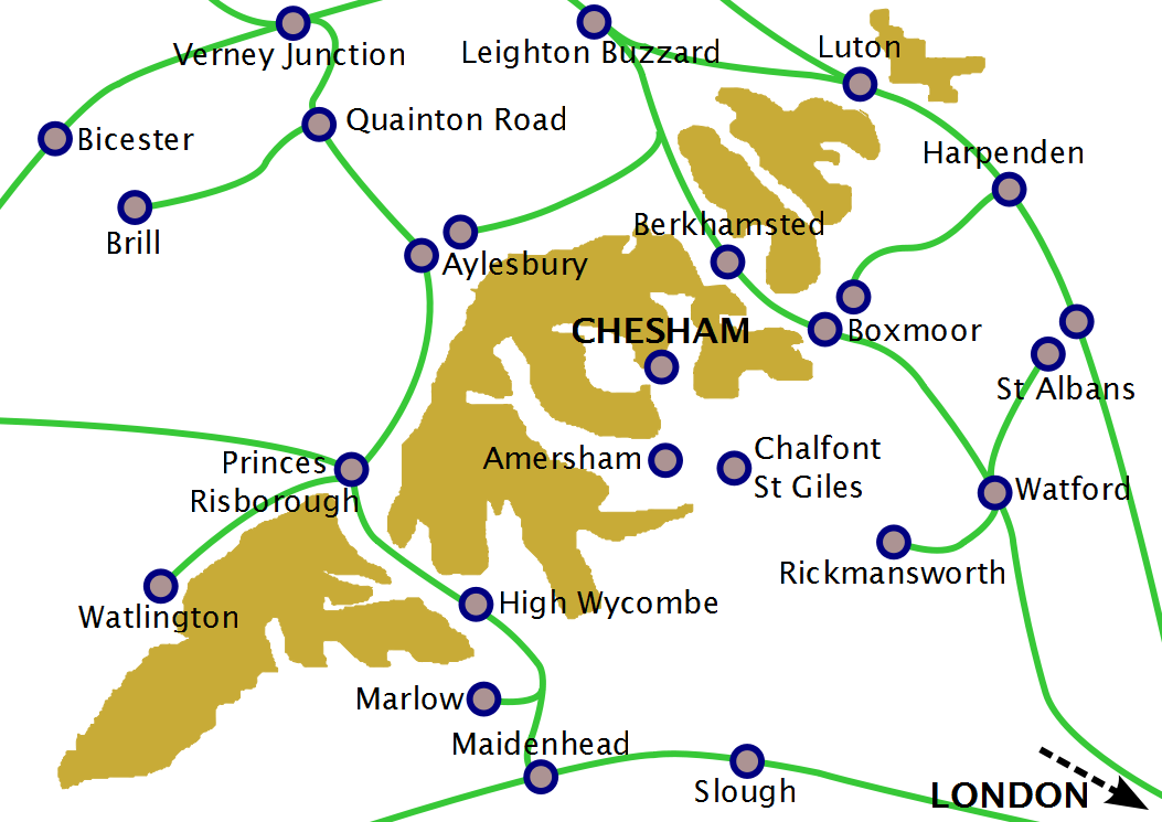 Railways in central and southern Buckinghamshire and important towns without rail connections, 1880. Only significant stations and junctions are marked.